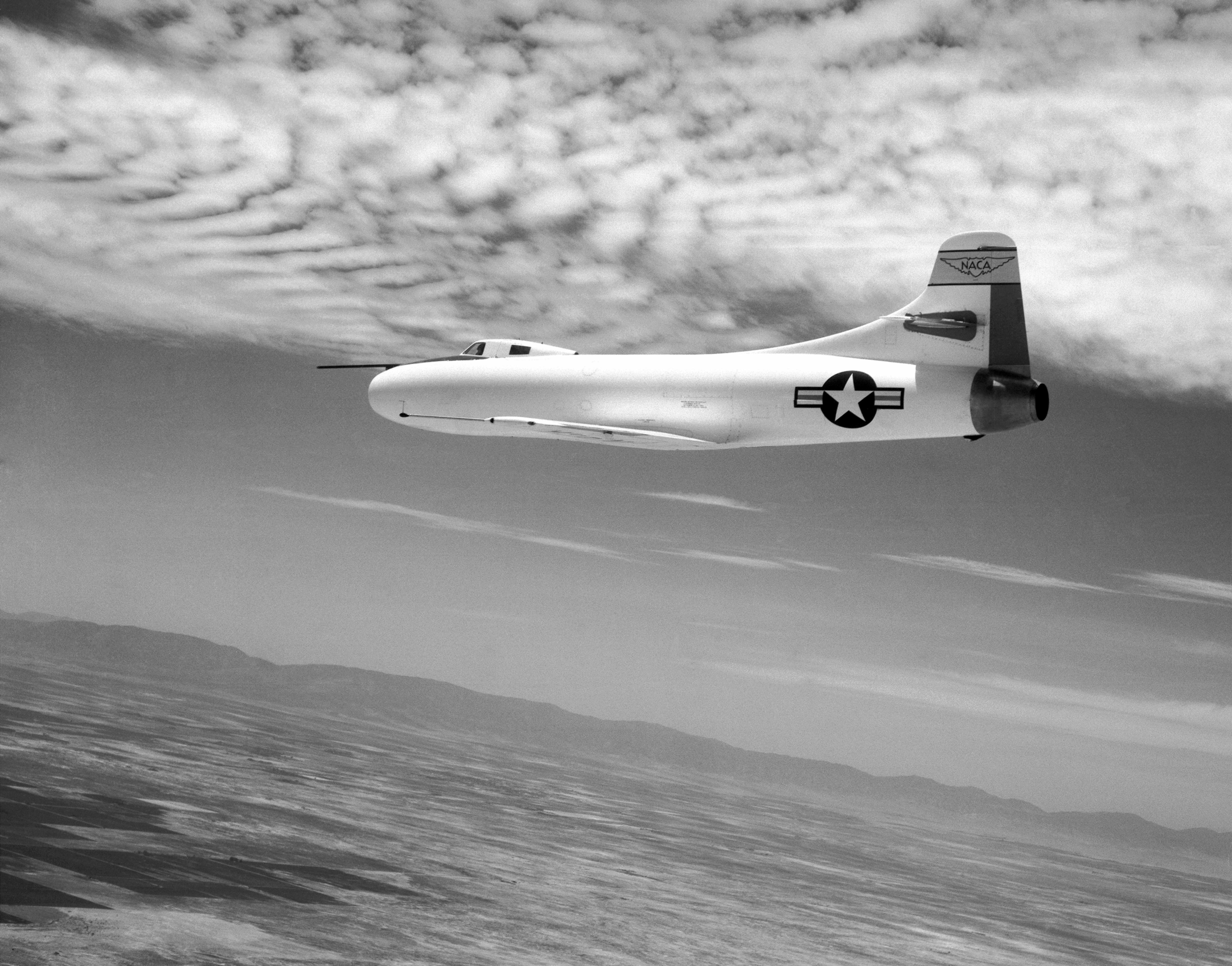 This is a 1952 NACA High-Speed Flight Research Station inflight photograph of the Douglas D-558-1 #3 Skystreak. Even with partial cloud cover the white aircraft is easy to see. Conceived in 1945, the D558-1 Skystreak was designed by the Douglas Aircraft Company for the U.S. Navy Bureau of Aeronautics, in conjunction with the National Advisory Committee for Aeronautics (NACA). The Skystreaks were turbojet powered aircraft that took off from the ground under their own power and had straight wings and tails. Much of the research performed by the D-558-1 Skystreaks was quickly overshadowed in the popular media by Chuck Yeager and the X-1 rocketplane. But the Skystreak performed an important role in aeronautical research by flying for extended periods of time at transonic speeds, which freed the X-1 to fly for limited periods at supersonic speeds.